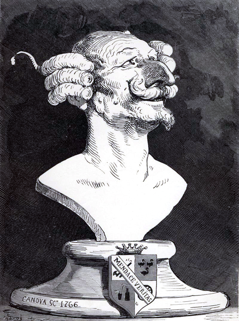 A public domain image of Baron Munchausen by Gustave Dore taken from (dead link; archived version here)